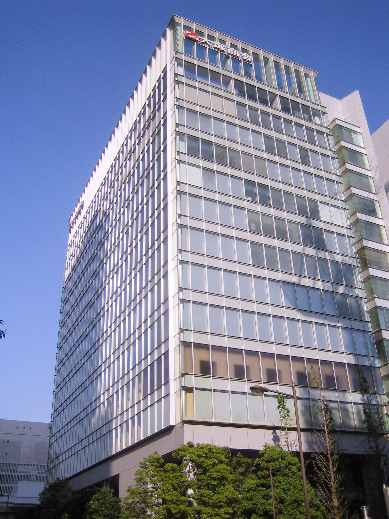 Otsuka Corporation (大塚商会 Ōtsuka Shōkai), in Chiyoda, Tokyo, Japan